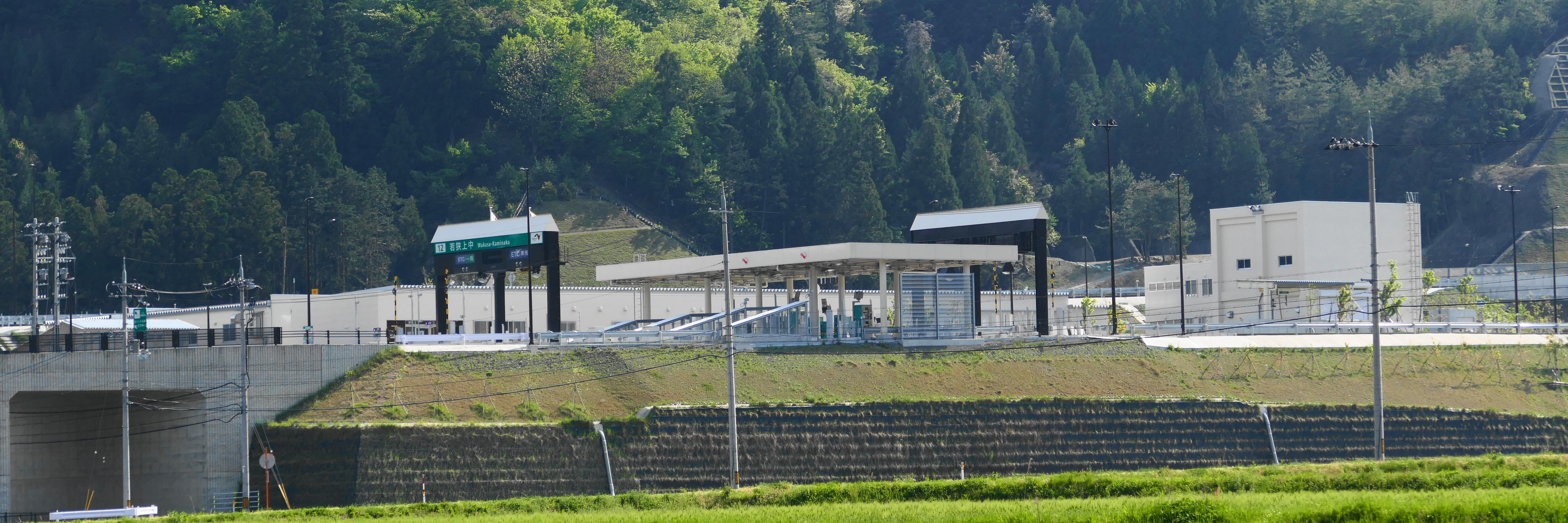 Wakasa-Kaminaka Inter Change,Fukui prefecture,Japan